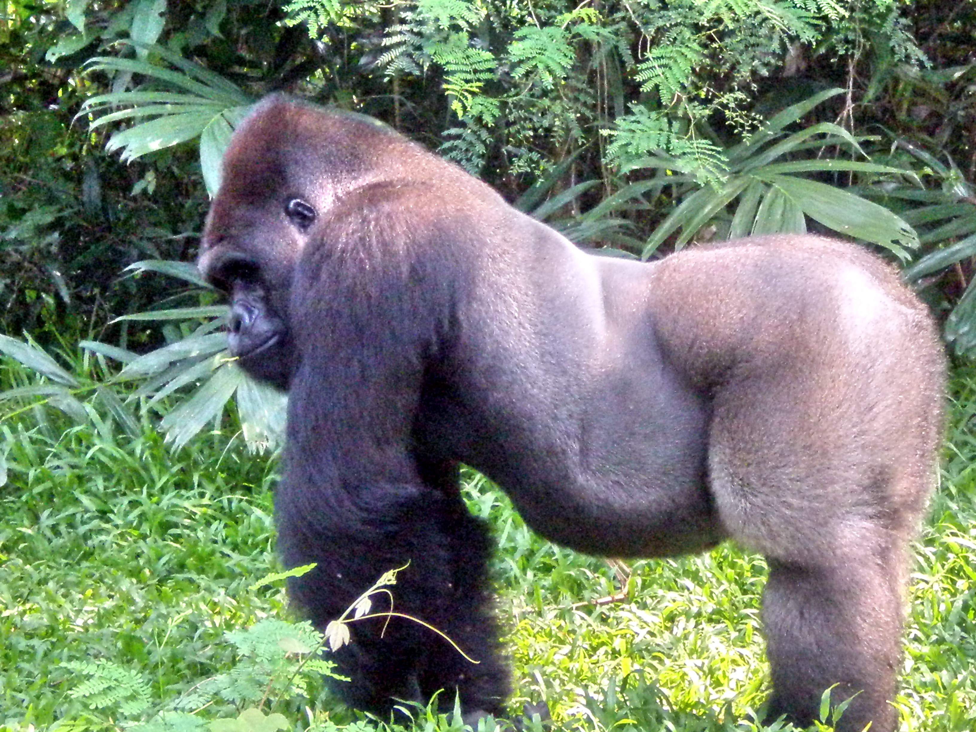 A gorilla at Ragunan Zoo, Jakarta - Indonesia